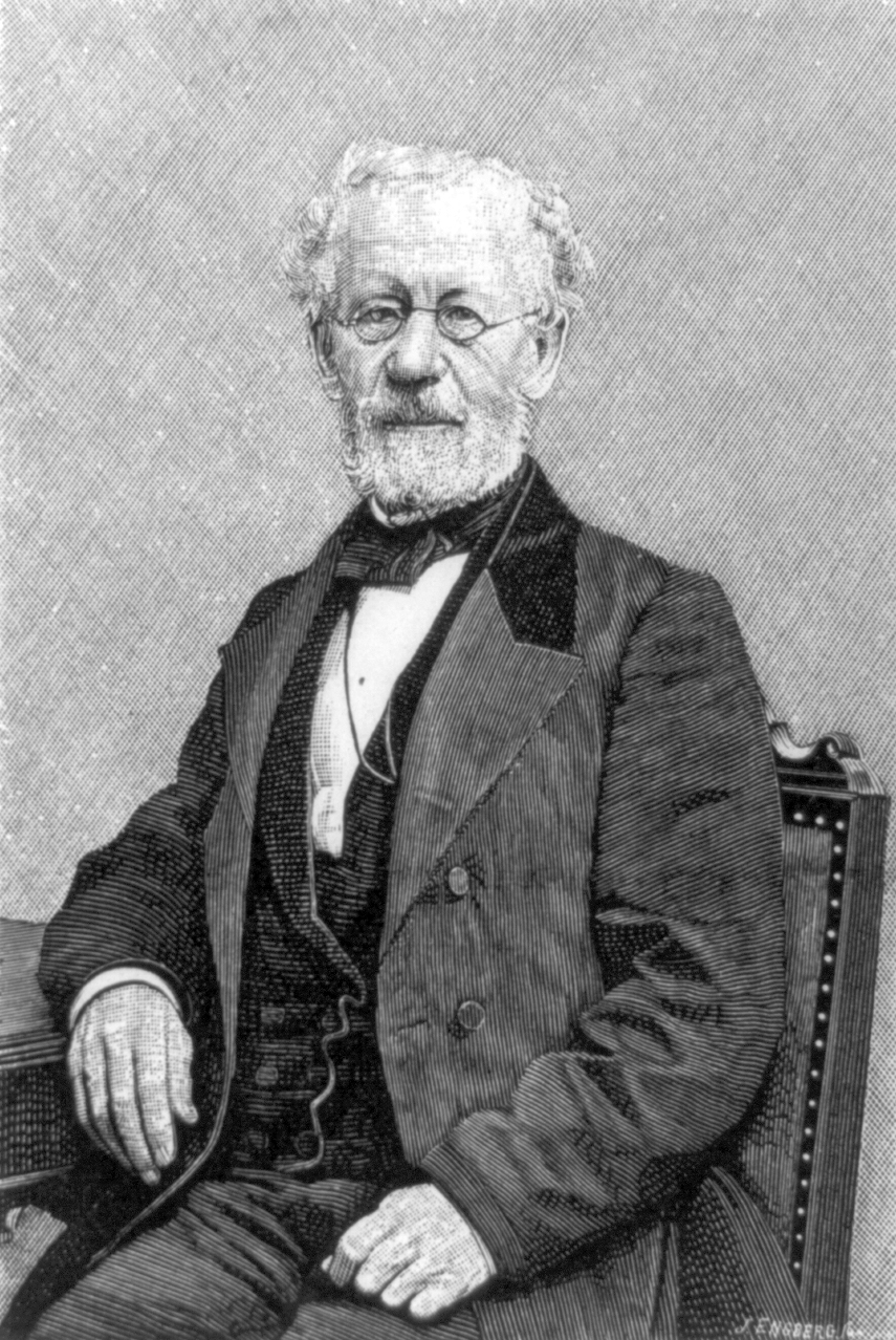 Professor Leonard D. Gale, professor of chemistry at New York University, who helped Samuel Morse with the invention of the telegraph. Illustration in: Century Magazine, 1888, vol. 35, p. 930.